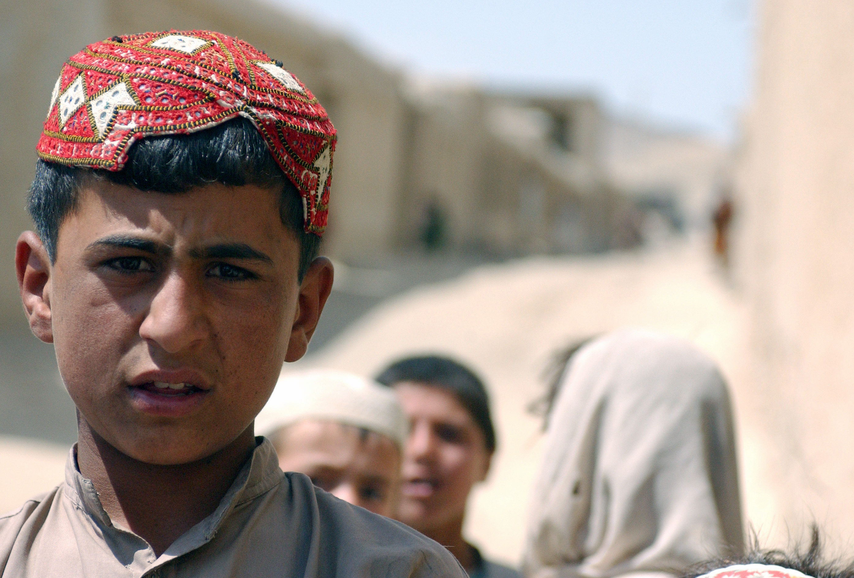 A young Afghan boy from the Pashtun tribe poses for a photograph near his home in Kabul, Afghanistan. (Released to Public)